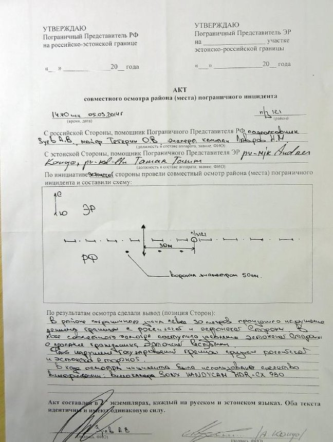 Official Russian protocol describing the border breach related to the Eston Kohver's capture. It also notes craters on the Russian side of the border.